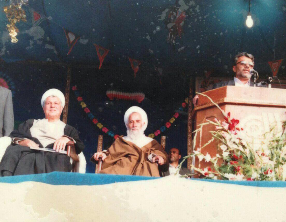 سخنرانی با حضور اکبر هاشمی در رامهرمز